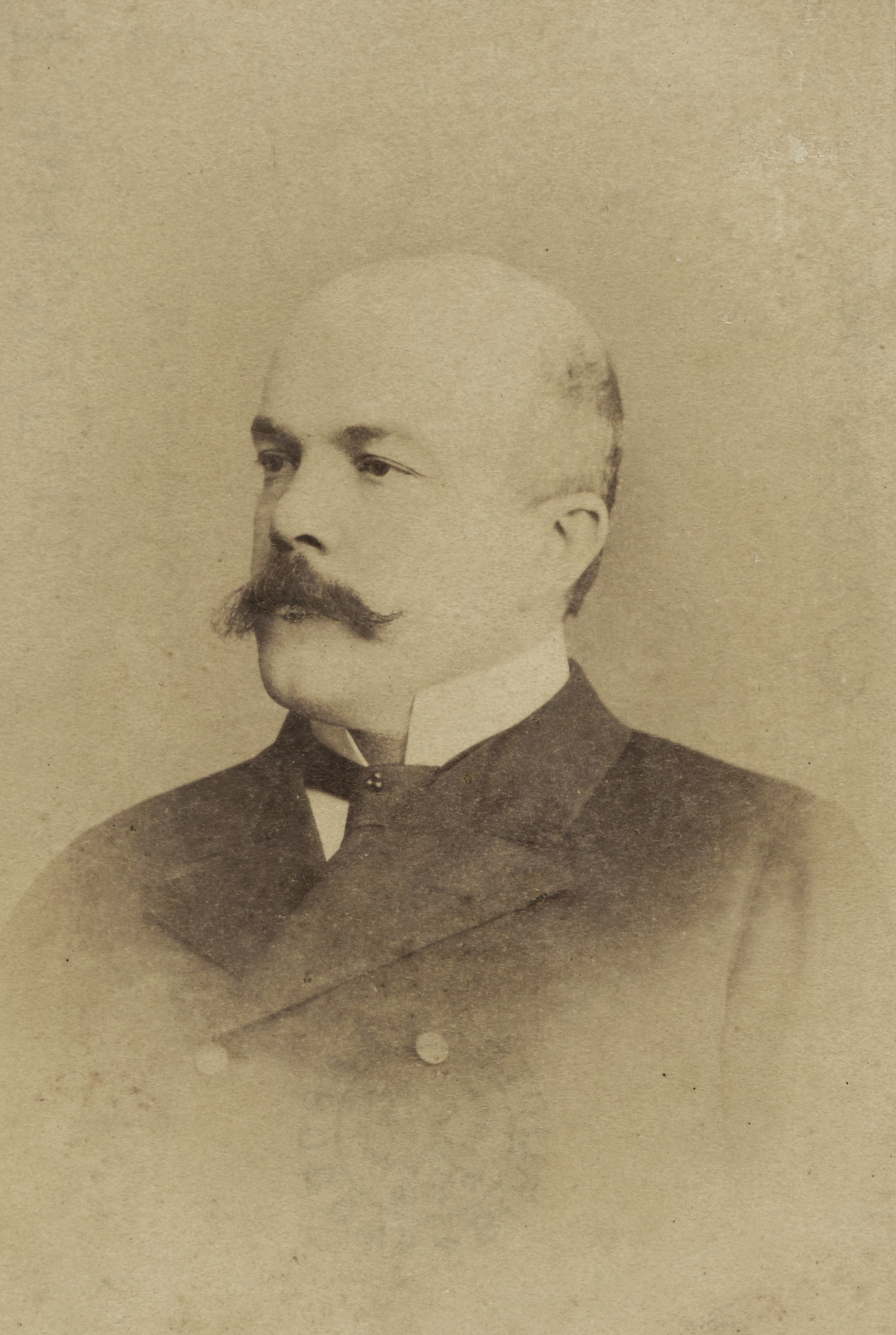 Kazimierz Badeni, Polish count, politician, prime minister of the Austro-Hungarian government.